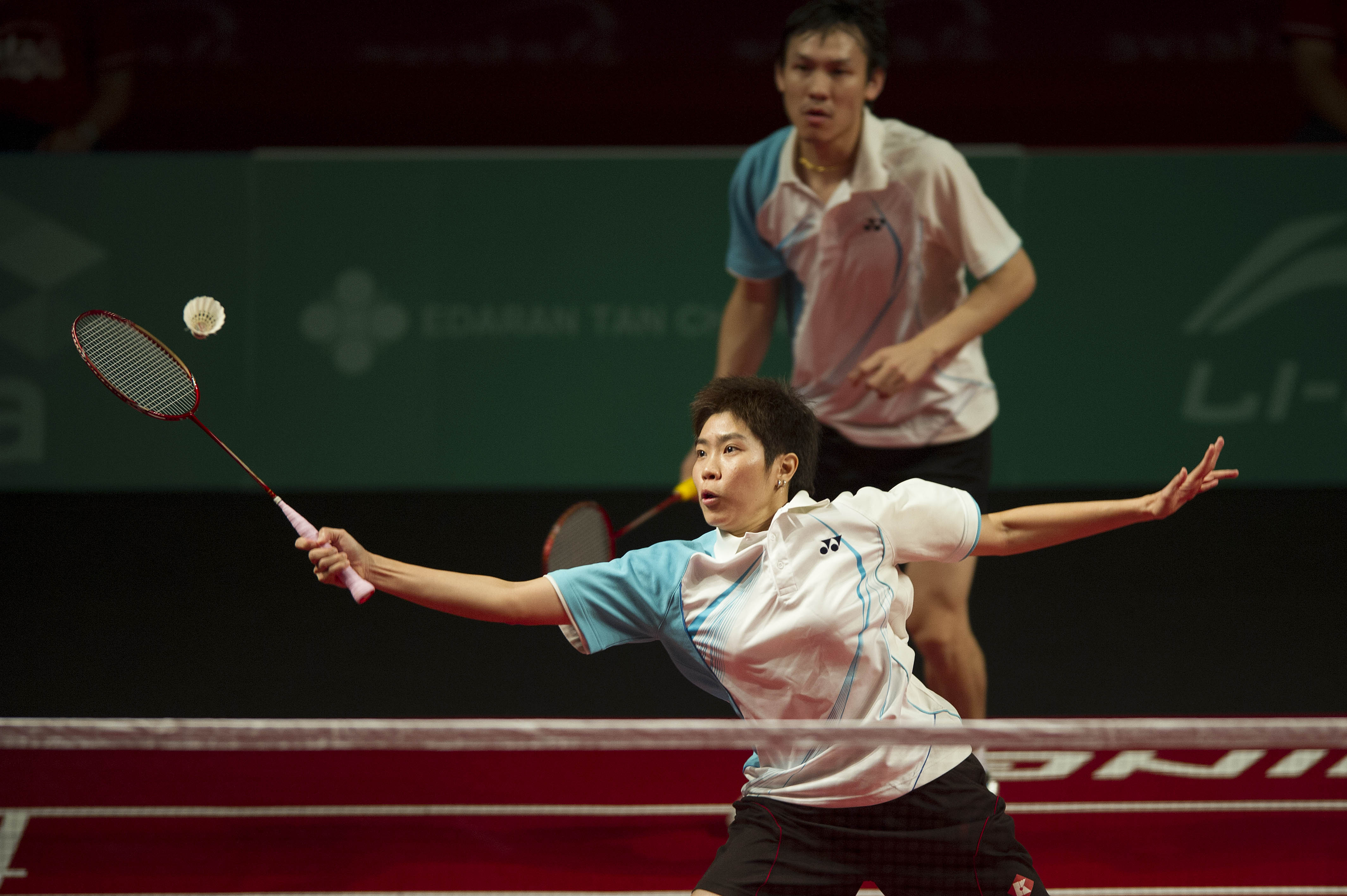 Sudket & Saralee at 2013 Axiata Cup